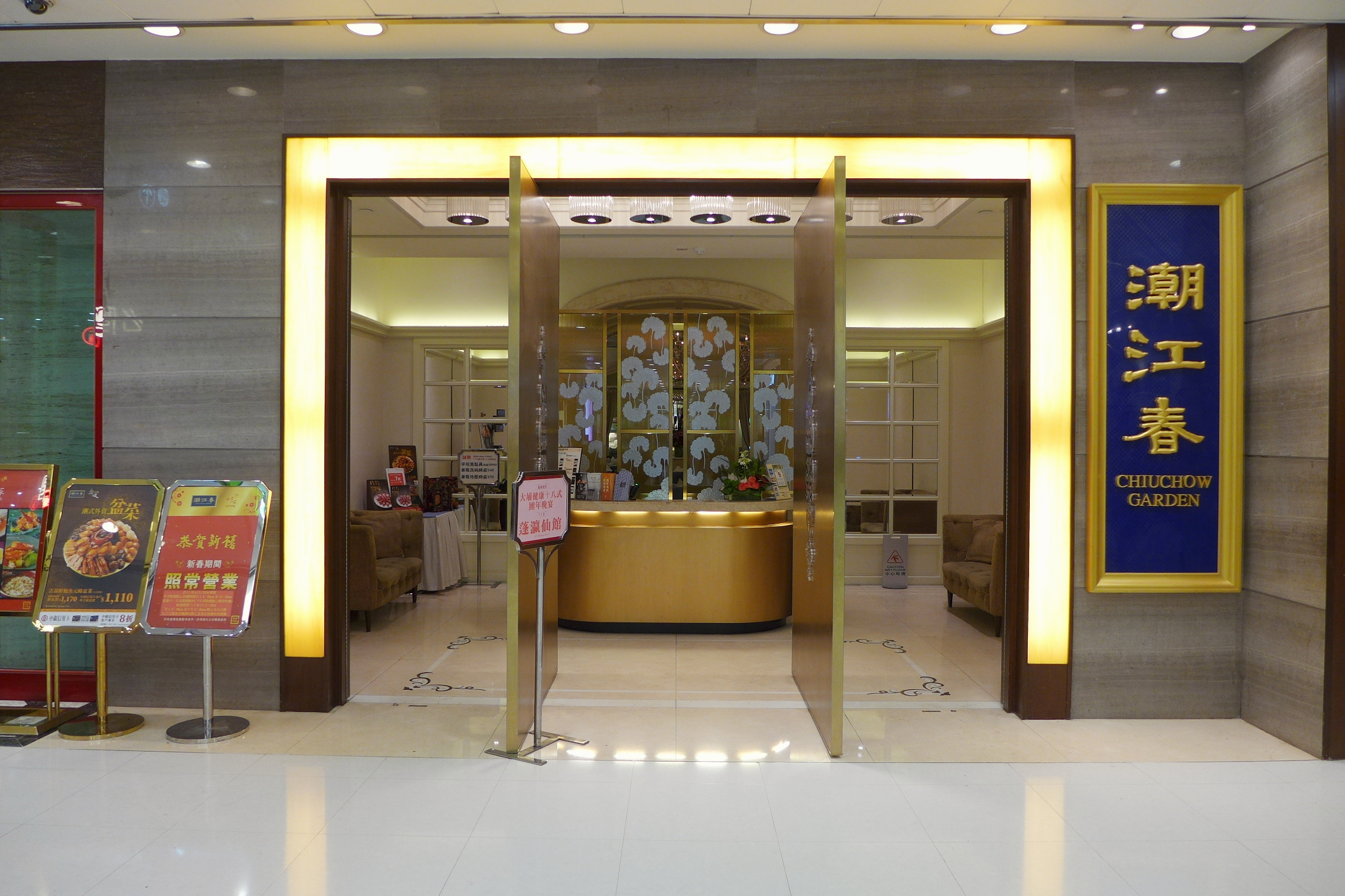 Chiu Chow Garden in Uptown Plaza